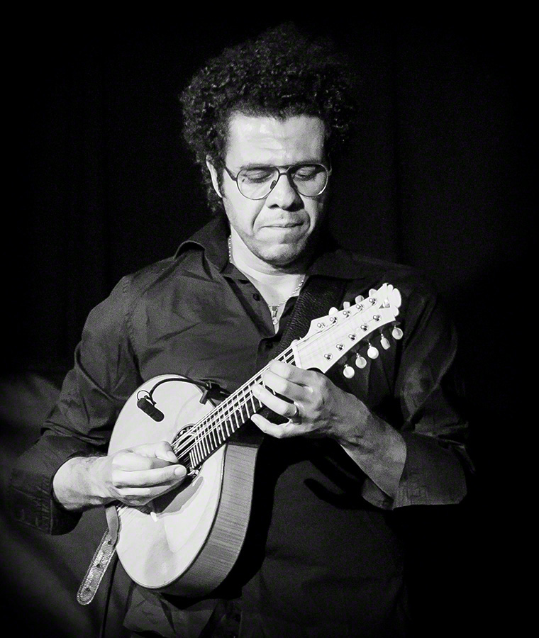 Hamilton de Holanda performs at Herr Nilsen at the Oslo Jazzfestival 2015